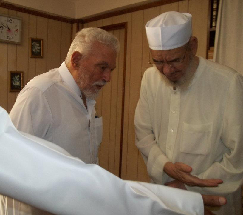 Sheikh Abdul Majid al-Shazly hosted by Sheikh Ahmed Mahlawi at his home in Alexandria.